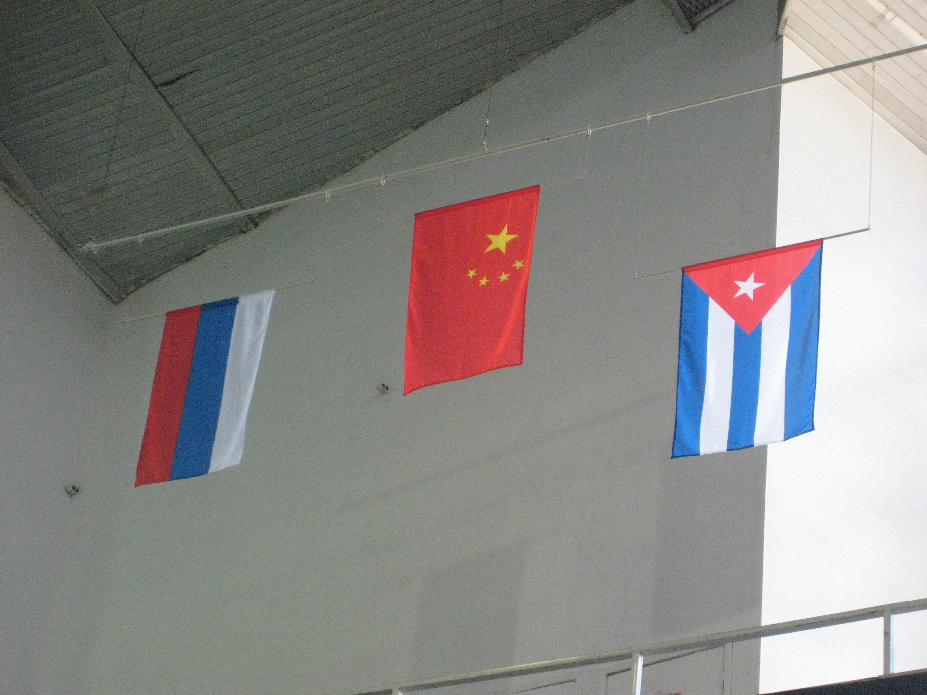 First day of the FINA/Midea Diving World Series 2013 - Moscow (RUS)